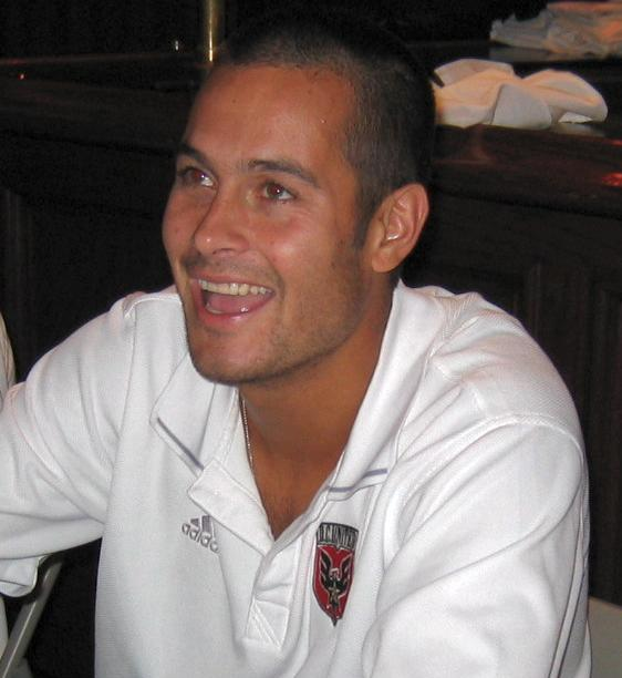 Photo of Mike Petke taken by me at D.C. United meet-the-team day.